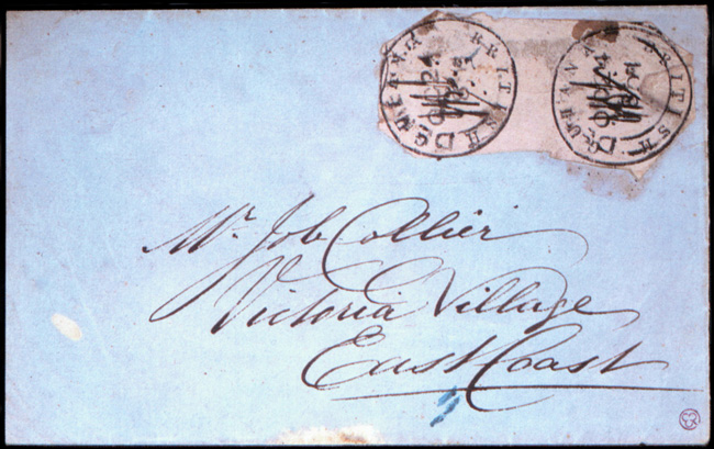 This is a picture of an 1850 British Guiana 2 c pink cottonreel on cover. Once owned by Phillip Ferrary, it was acquired by King George V for the British royal collection.